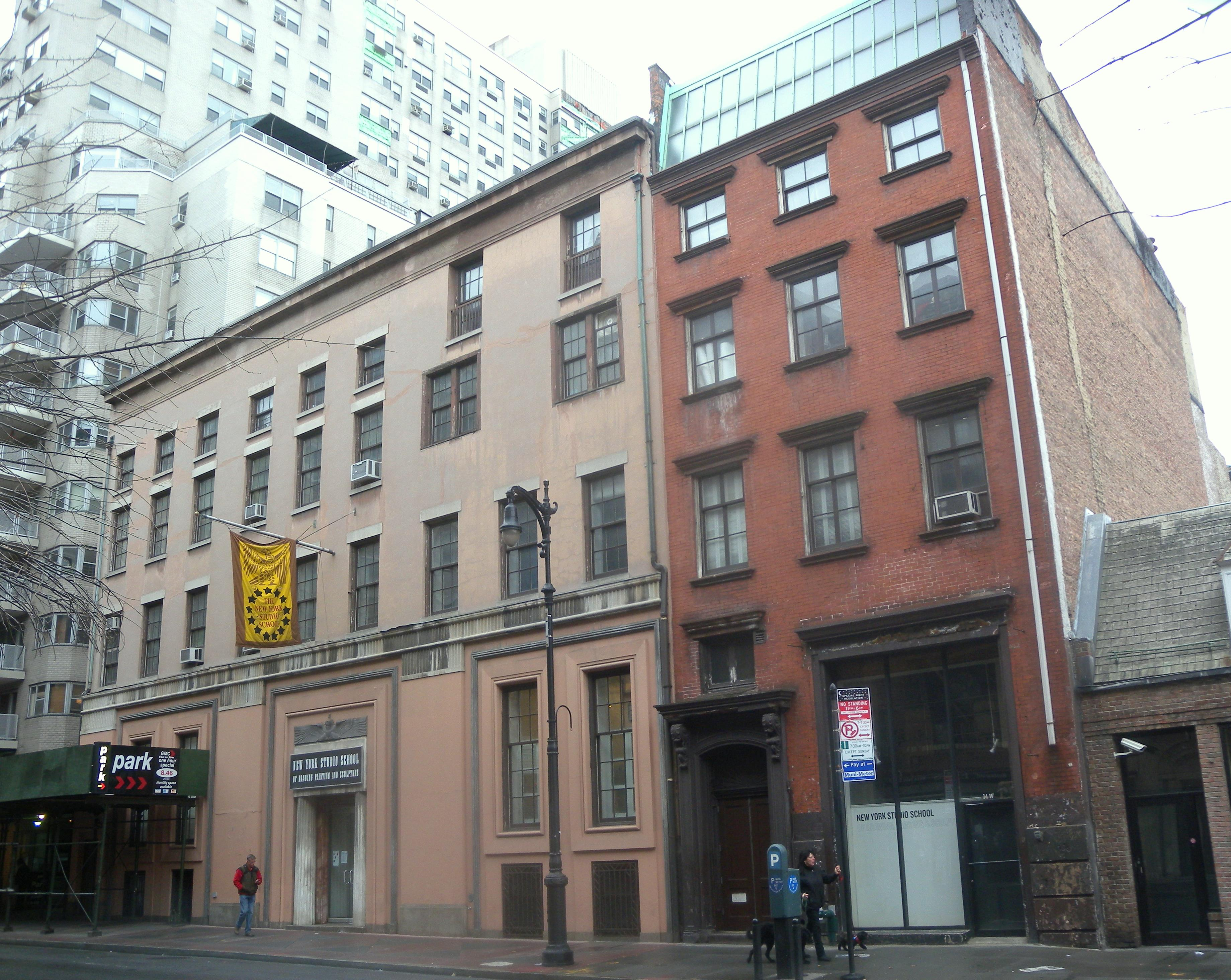 Looking southeast across 8th St at New York Studio School on a cloudy morning.